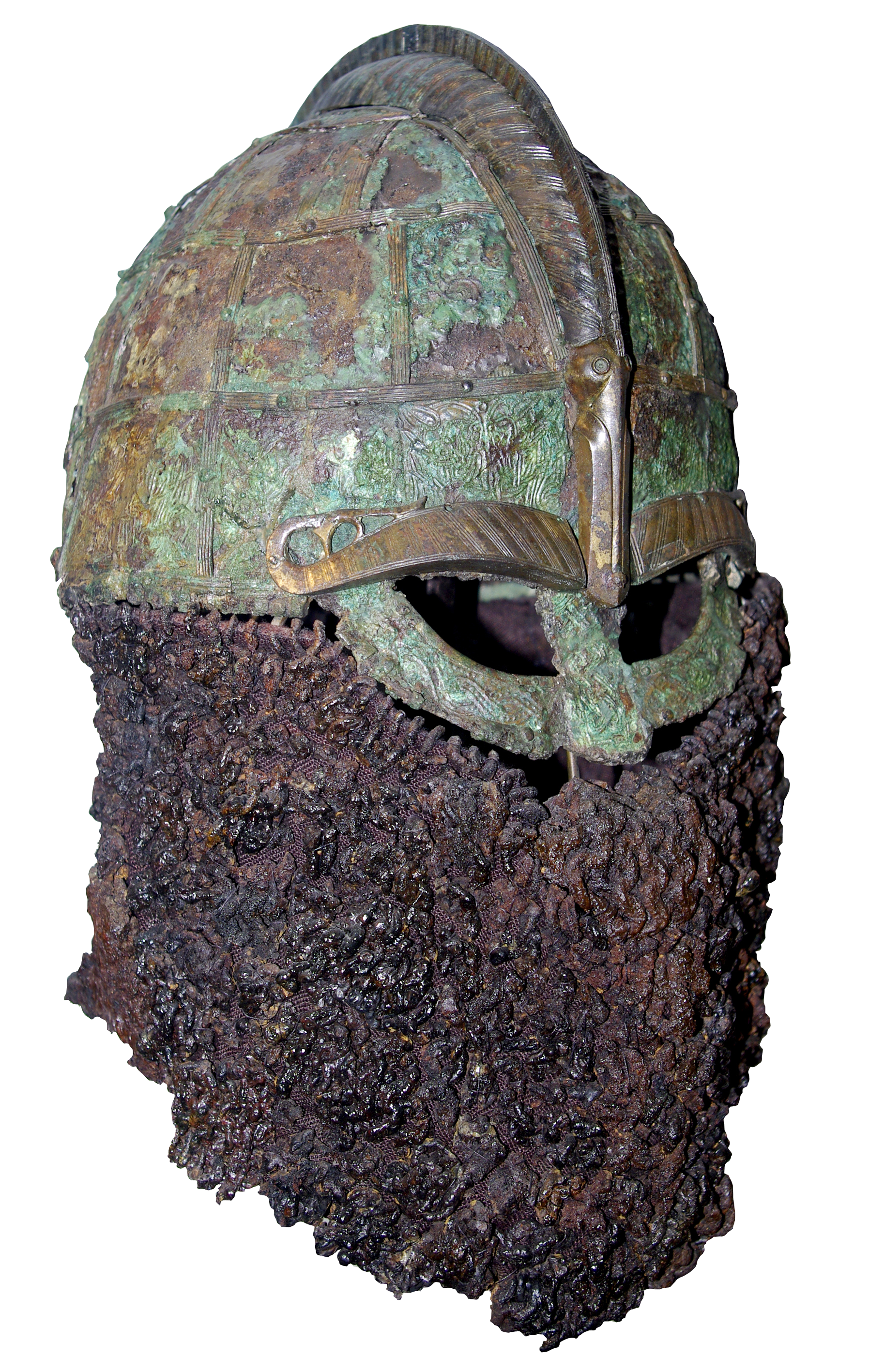 Findings from the graves from Valsgärde, Sweden